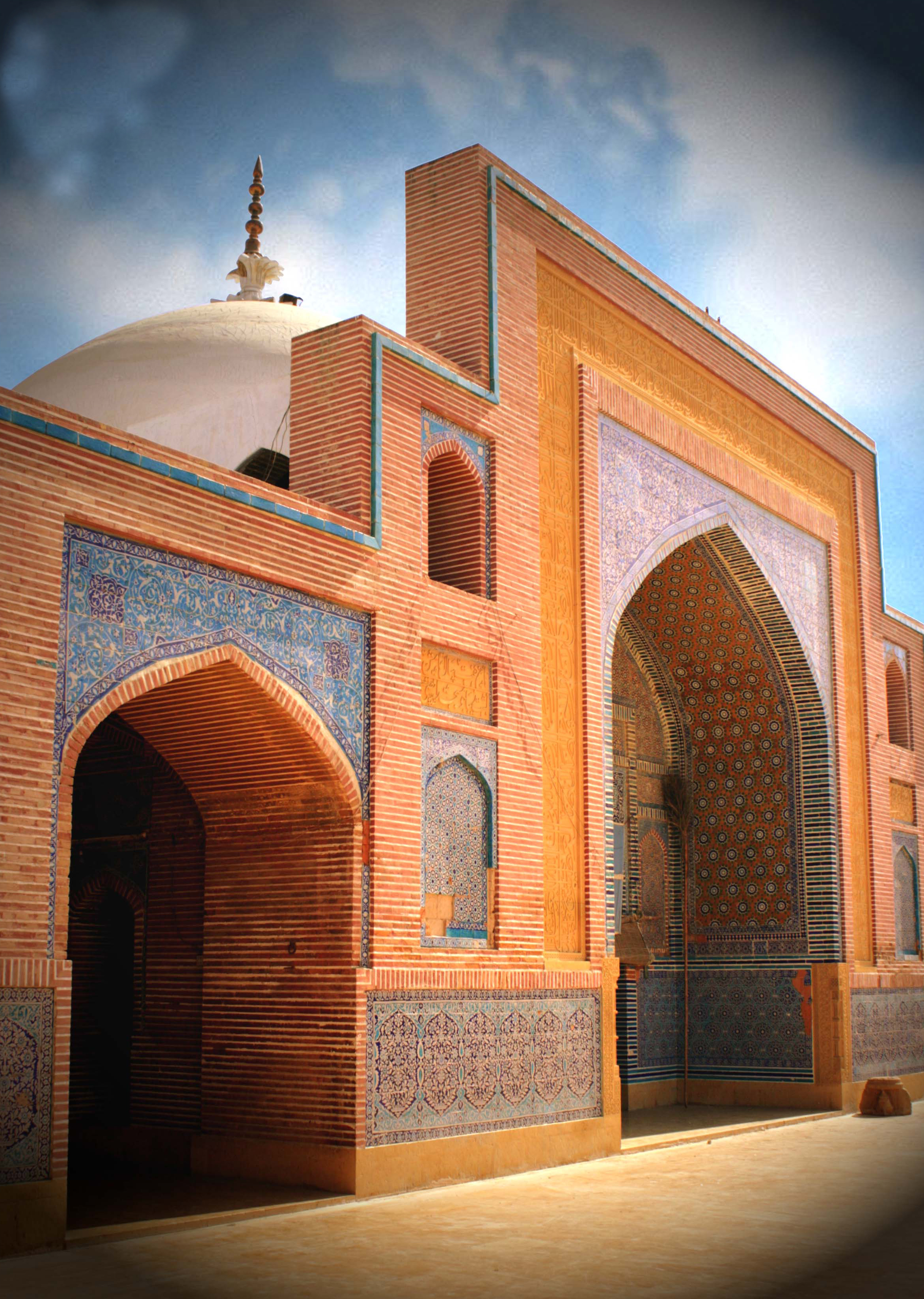 The Shah Jahan Mosque (Urdu: شاہ جہاں مسجد), also known as the Jamia Masjid of Thatta (Urdu: جامع مسجد ٹھٹہ), is a 17th-century building that serves as the central mosque for the city of Thatta, in the Pakistani province of Sindh. The mosque is considered to have the most elaborate display of tile work in South Asia and is also notable for its geometric brick work - a decorative element that is unusual for Mughal-period mosques.[3] It was built during the reign of Mughal emperor Shah Jahan, who bestowed it to the city as a token of gratitude, and is heavily influenced by Central Asian architecture - a reflection of Shah Jahan's campaigns near Samarkand shortly before the mosque was designed This is a photo of a monument in Pakistan identified as the SD-90